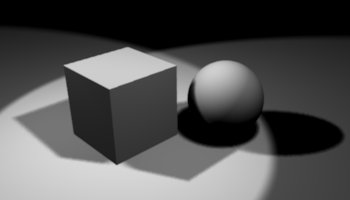 Simple Setup for testing of the different shadowtypes. Classical Buffer shadow.